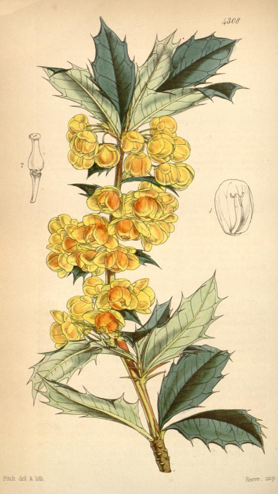 colour-drawing of Berberis ilicifolia